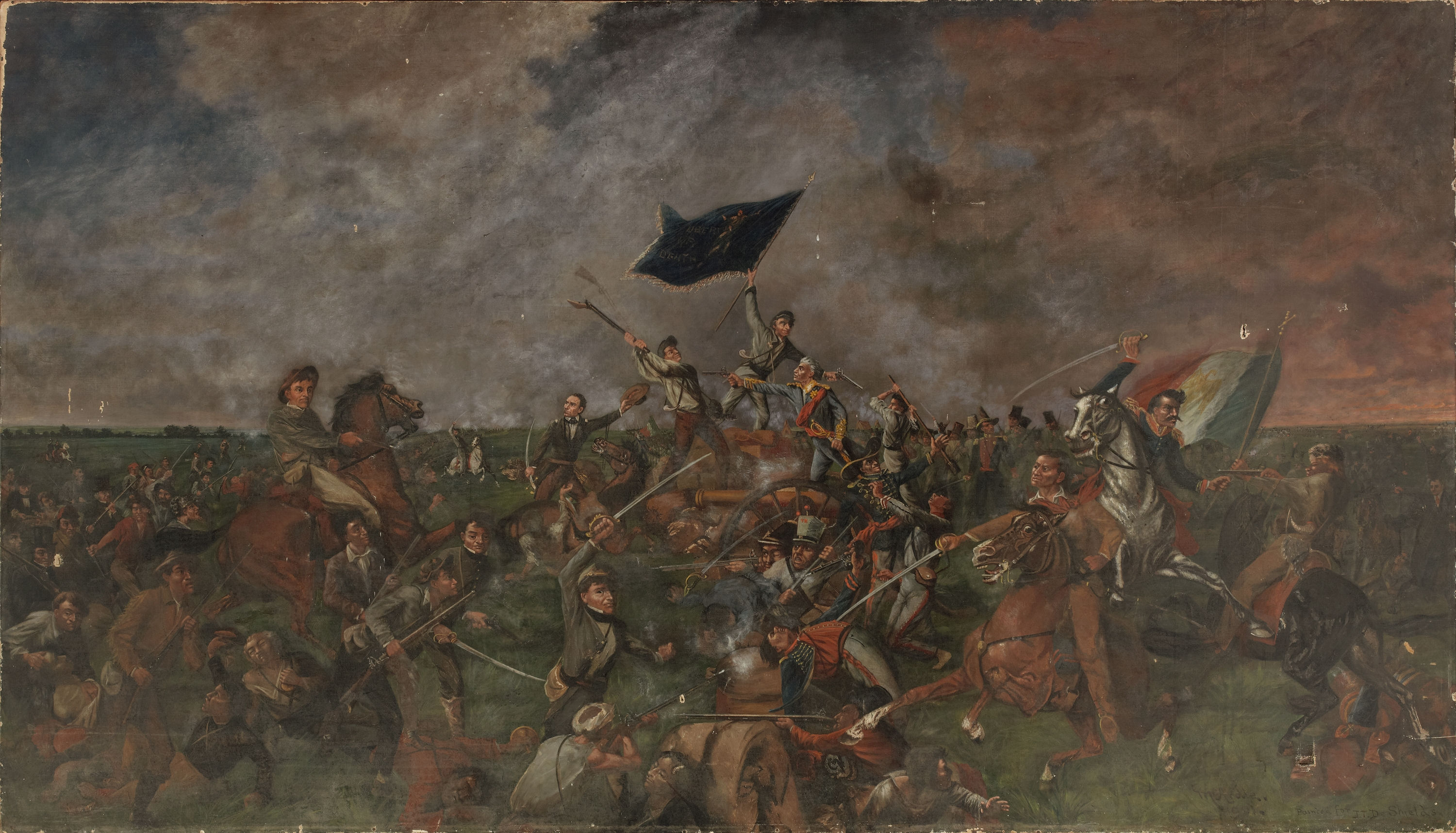 Artistic interpretation of the Battle of San Jacinto. Caption: COURTESY OF HERITAGE AUCTIONS. The Battle of San Jacinto, created in 1901 by H.A. McArdle of San Antonio, is a smaller version of the mural he painted in the Texas Capitol.